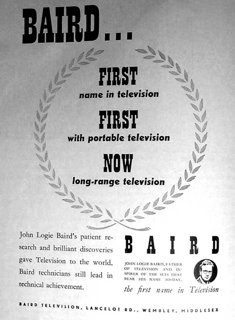 Baird Televisions Advert